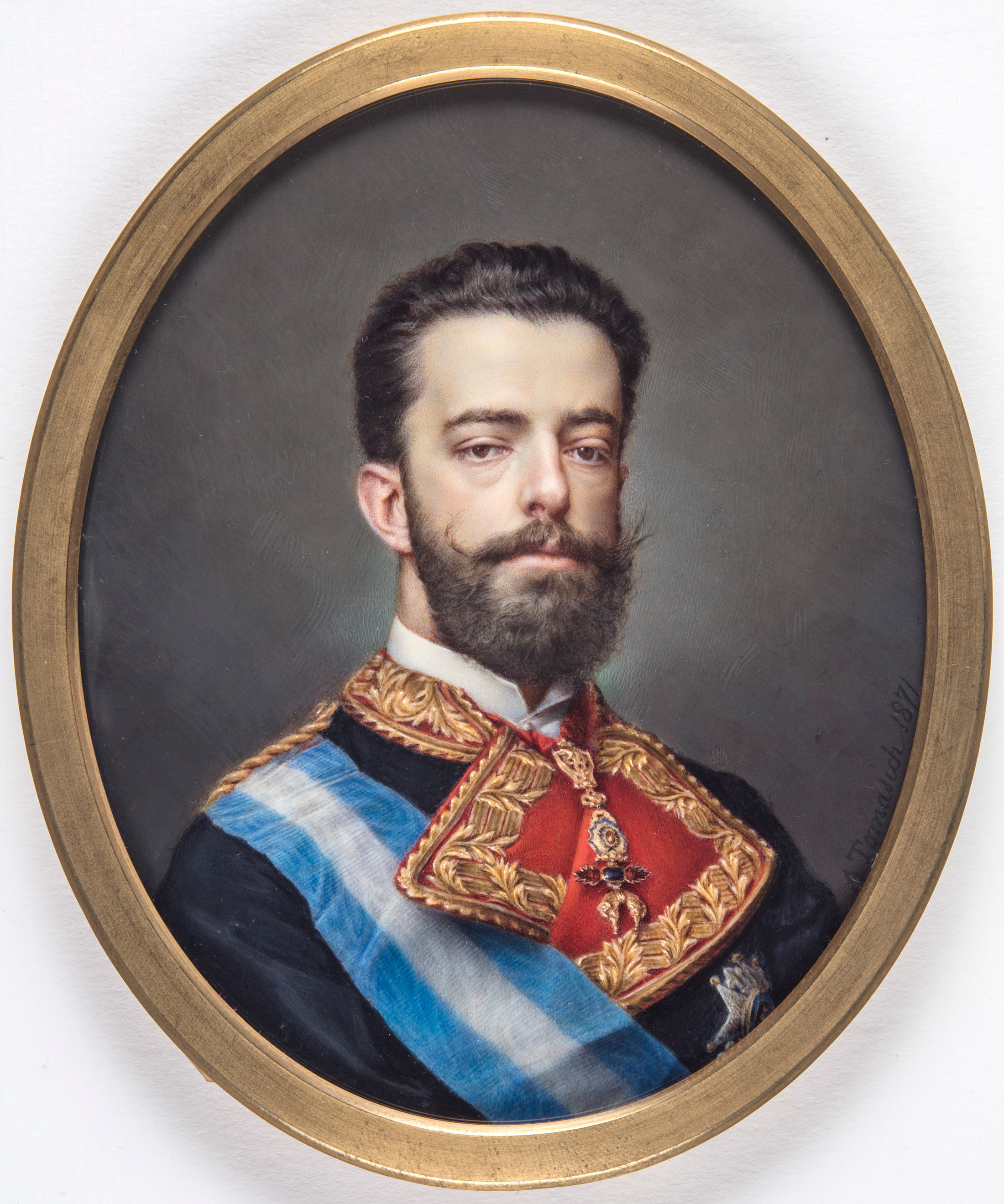 Amadeo de Saboya, King of Spain